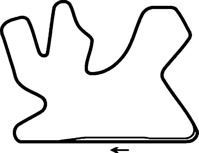 "Losail International Circuit" map